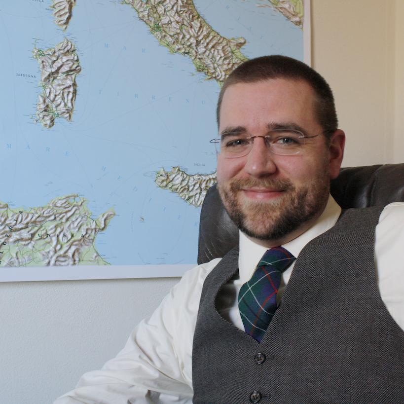 American podcaster Mike Duncan of Revolutions and The History of Rome. In front of atlas.